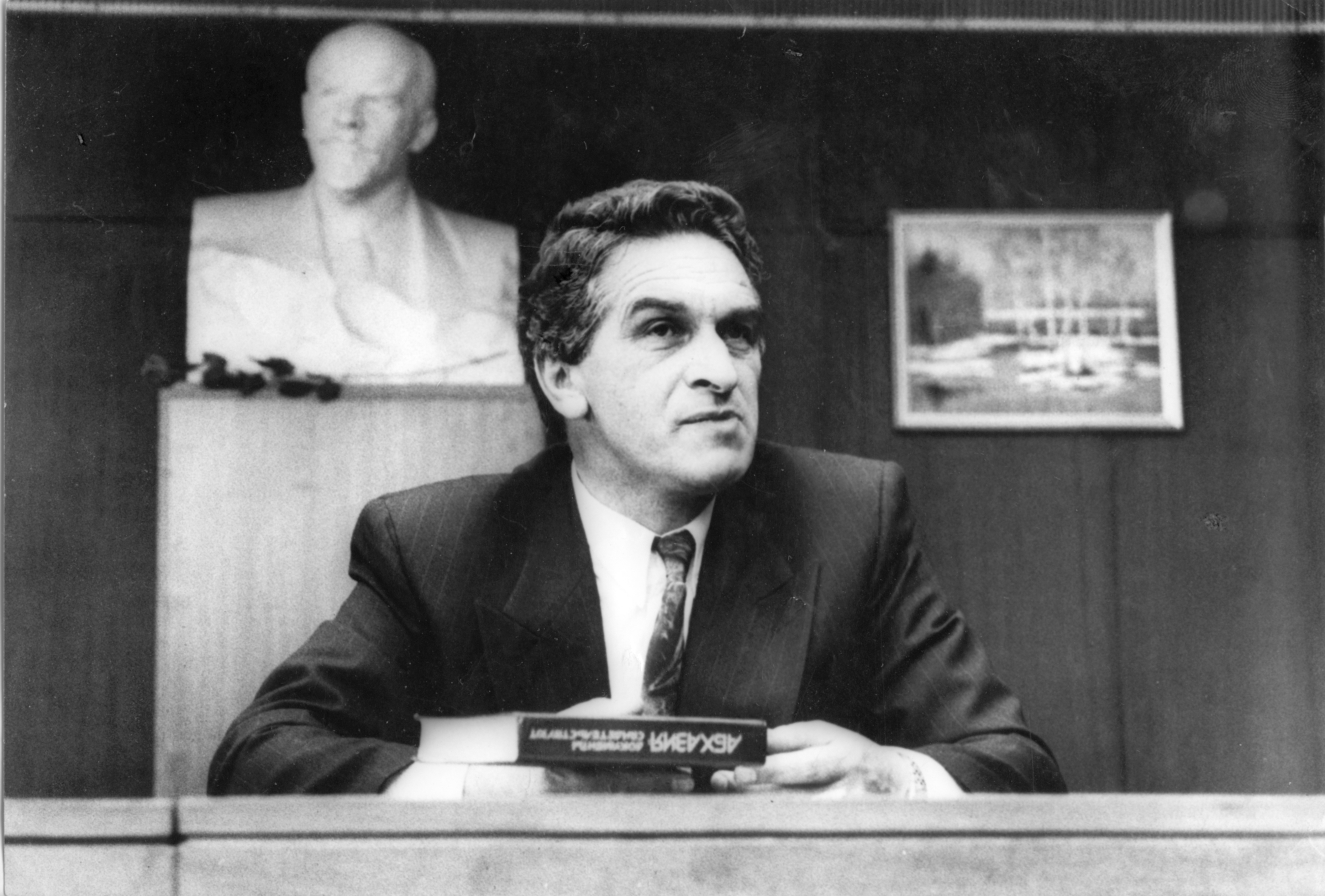 Vladislav Ardzinba in Pravda office in Moscow.